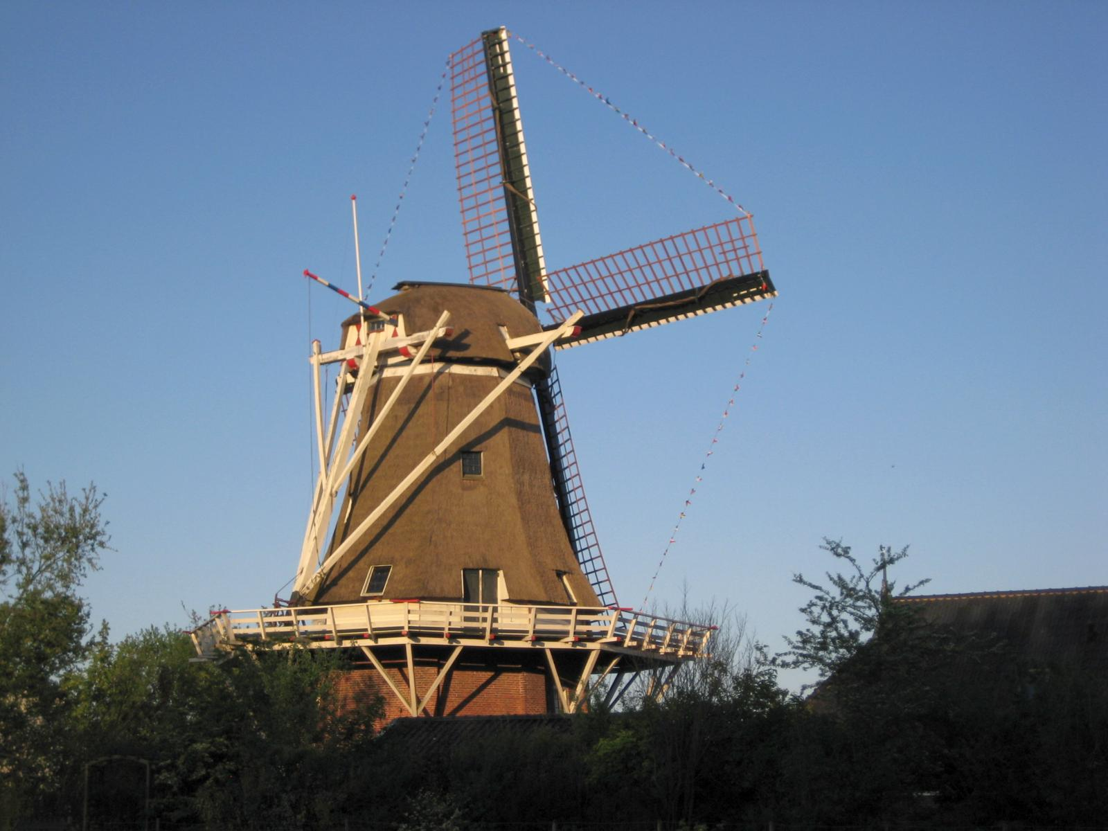 Windmill De Hond ("The Dog") in Paezens, in the Dutch province of Fryslân